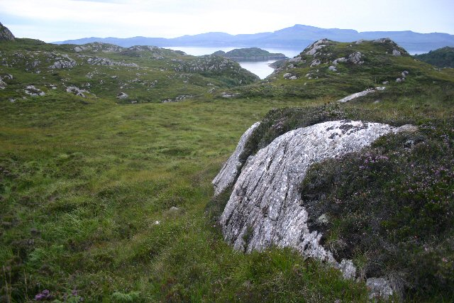 Gneiss outcrop, South Rona off Raasay. The island of Rona consists of ancient Lewissian gneiss, among the oldest rocks in Europe..